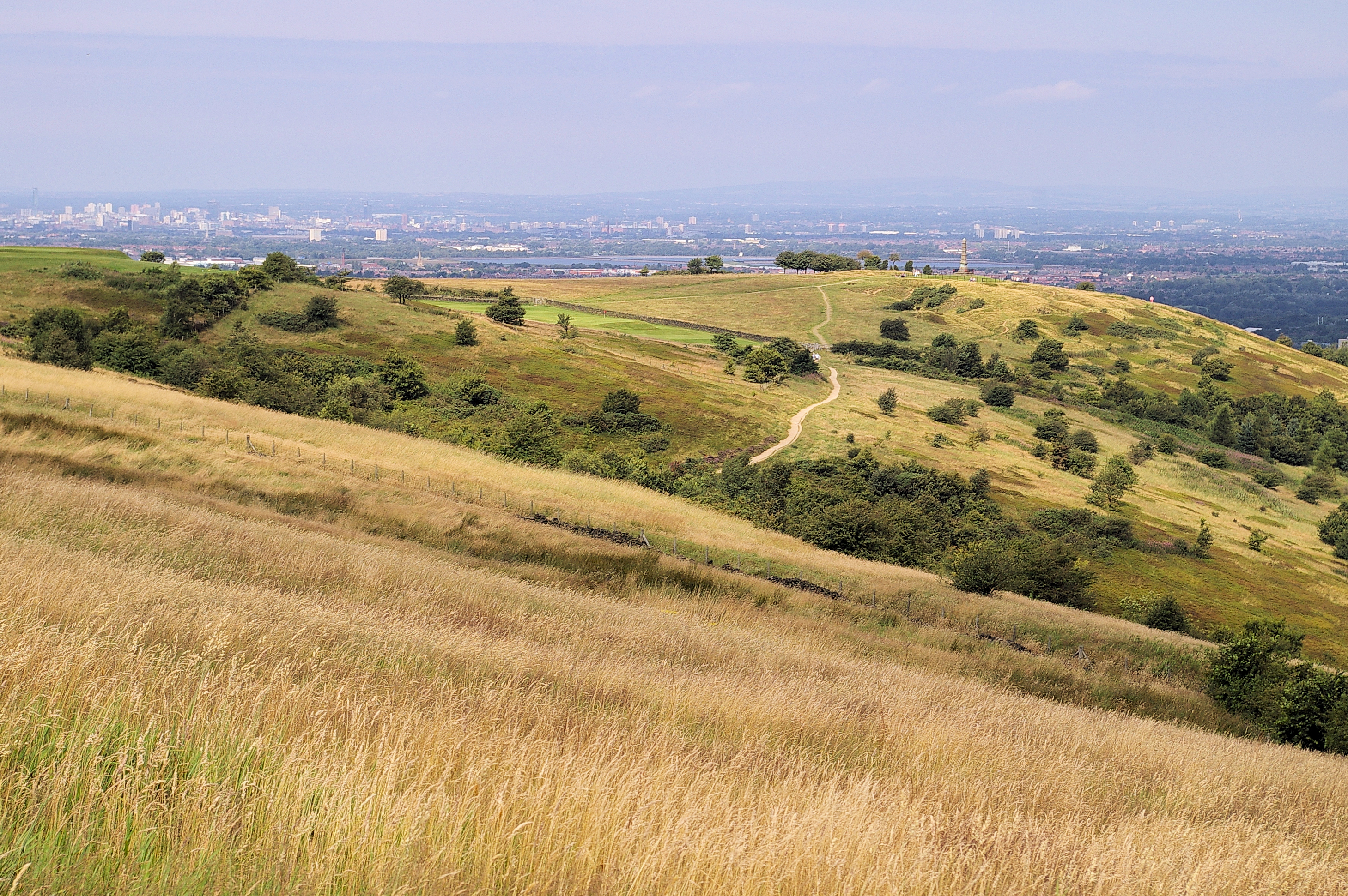 Werneth Low With Hyde Cenotaph and Greater Manchester beyond